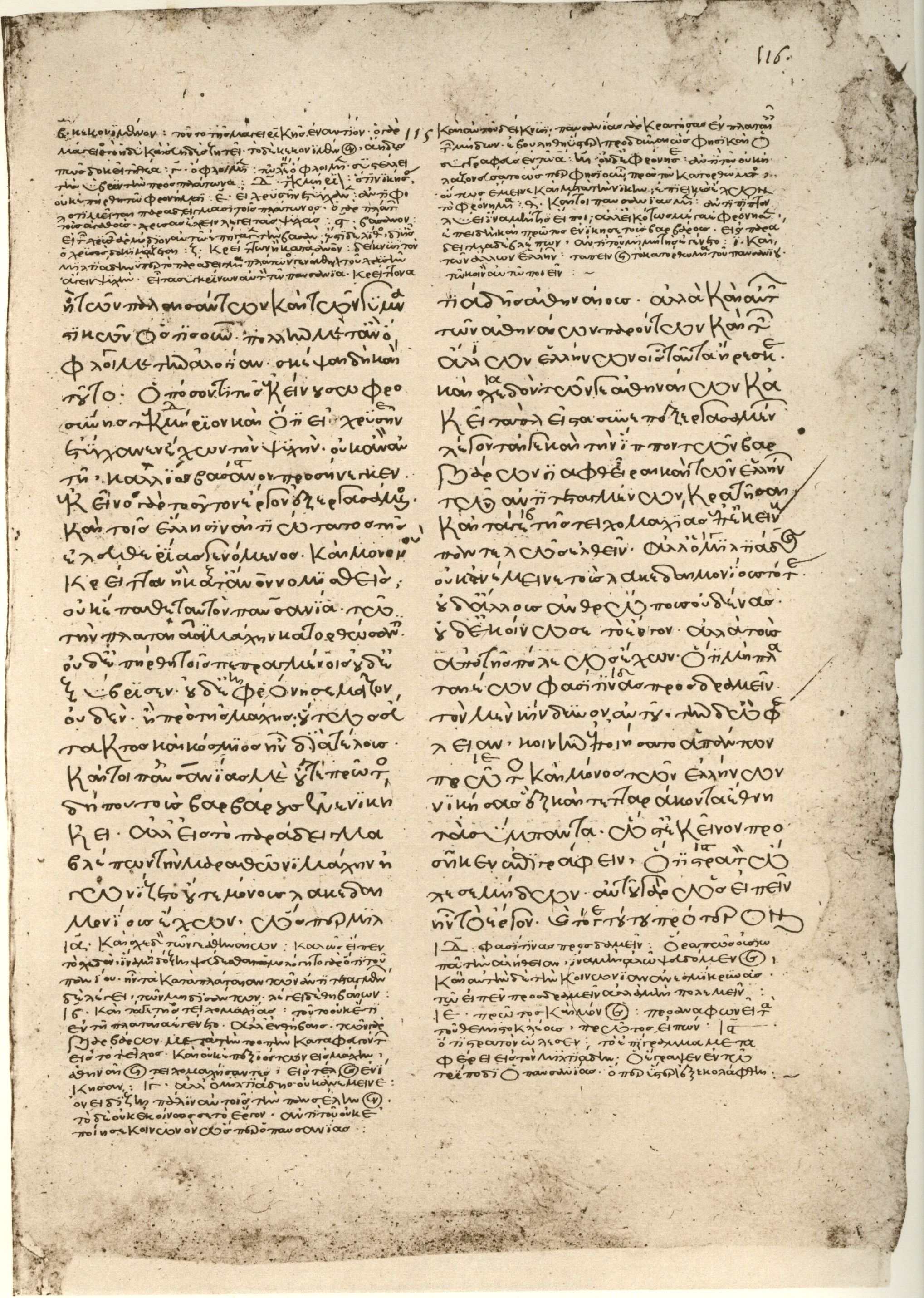 Aelius Aristides, Orations with scholia in a manuscript written by Byzantine princess Theodora Palaeologina Rhaulaena: Biblioteca Apostolica Vaticana, Vaticanus graecus 1899, fol. 116r.